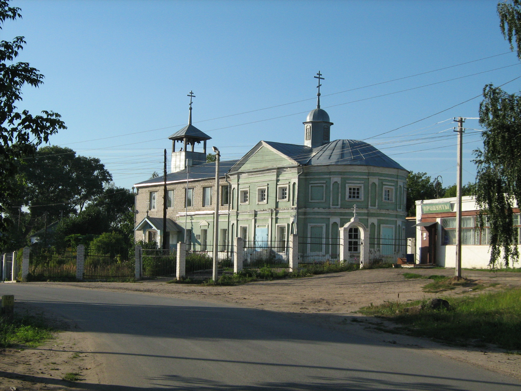 The Church of Our Lady of Kazan in the Old Kstovo. Originally built in 1880s, re-consecrated in the 1990s.